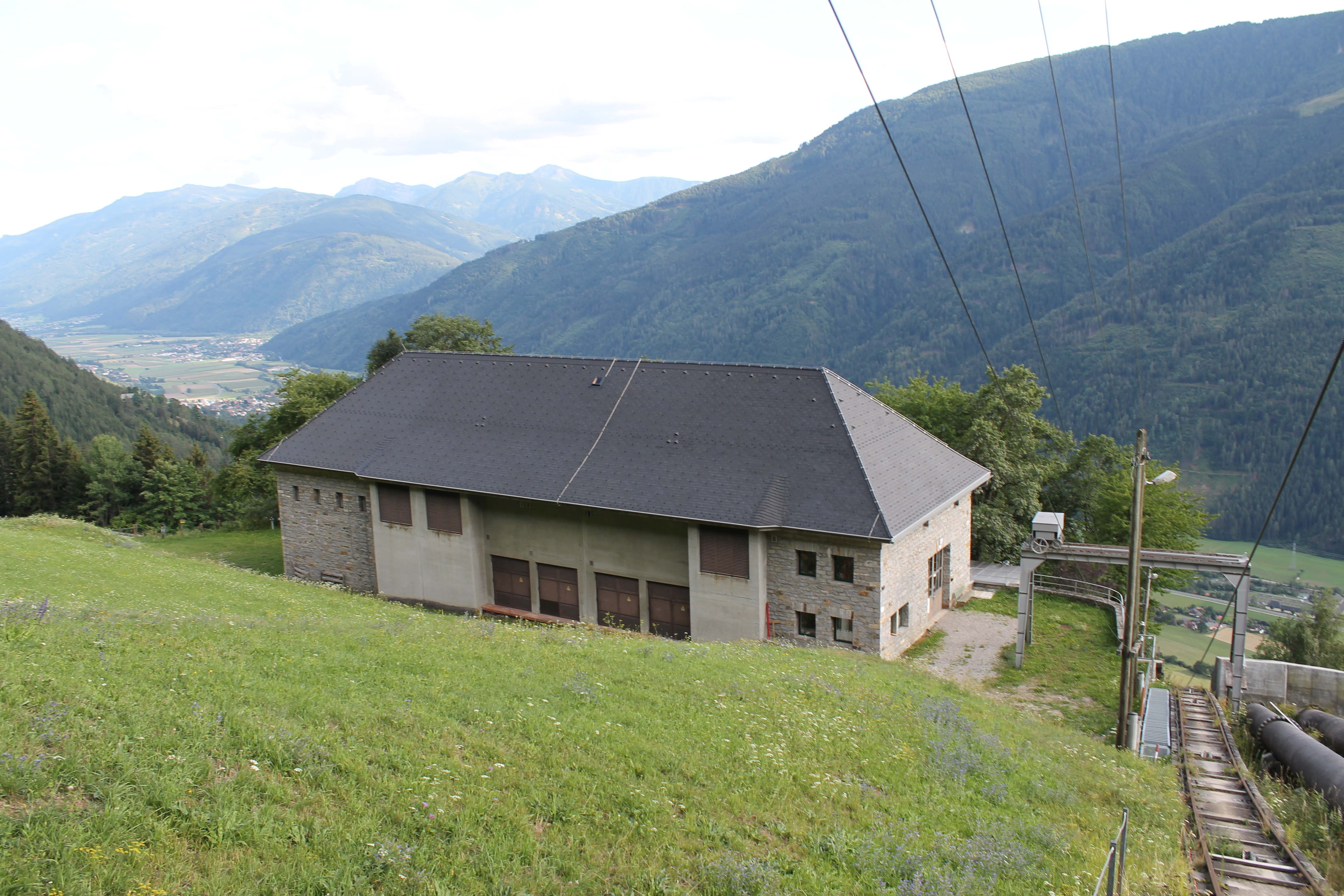 Pumpstation Hattelberg, part of the powerplants Reißeck-Kreuzeck, Austria.